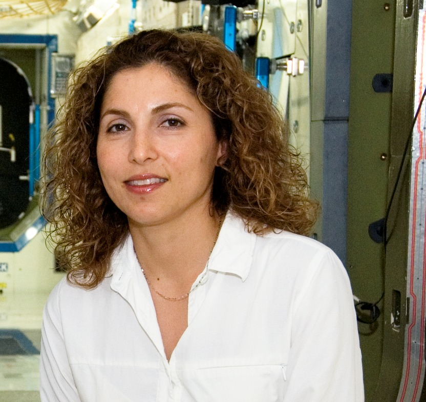 Daisuke Enomoto and Anousheh Ansari, primary and backup spaceflight participants, respectively, for the ISS Soyuz 13 (TMA-9) mission to the International Space Station. The spaceflight participant will launch with Expedition 14 and land with Expedition 13 under a commercial contract with the Russian Federal Space Agency.